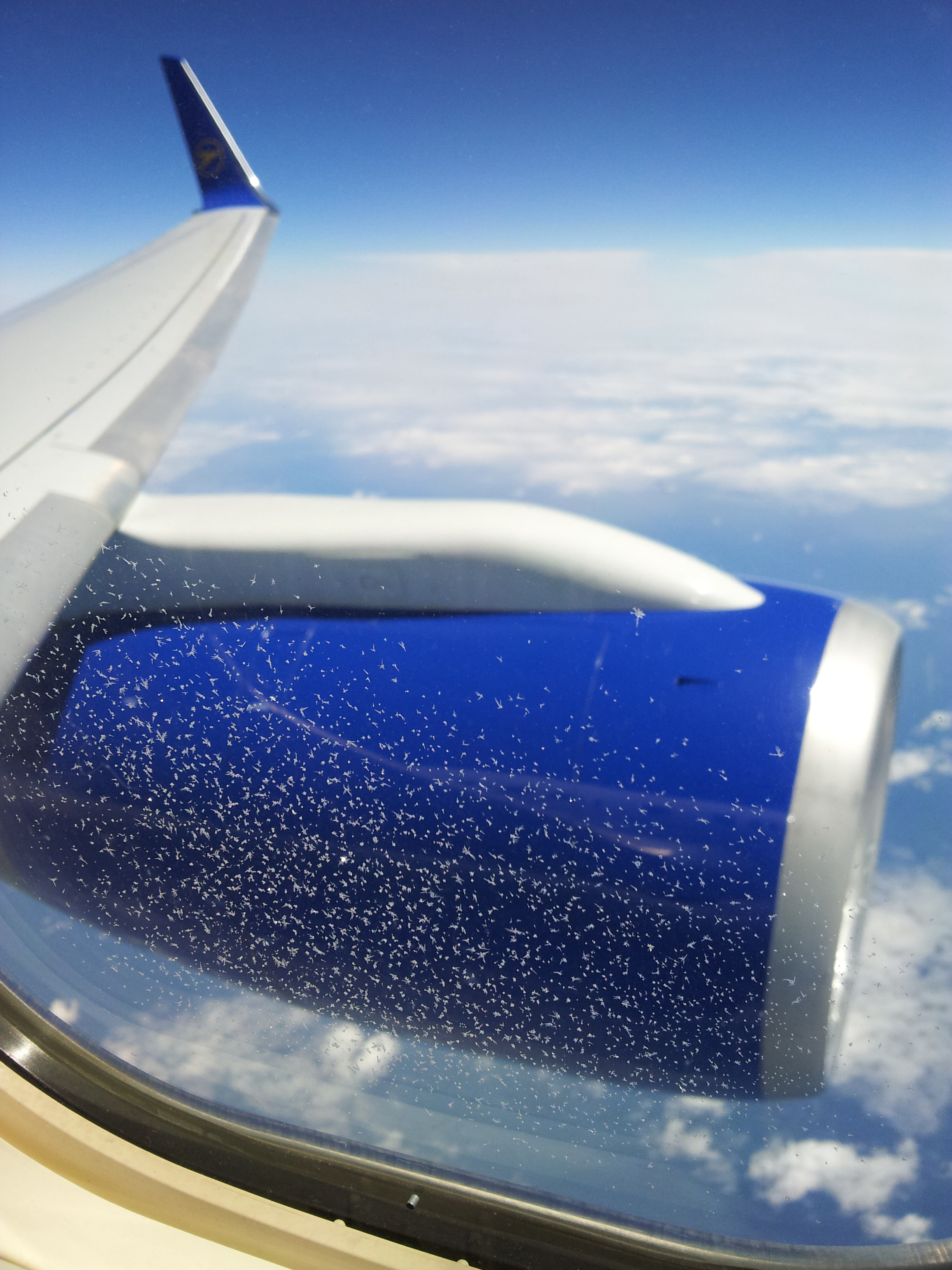 Emergence of ice crystals in a hight of ca. 10.000 m (33,000 ft}, (Troposphere at -60°C outside temperature, between the multiple aircraft windows.